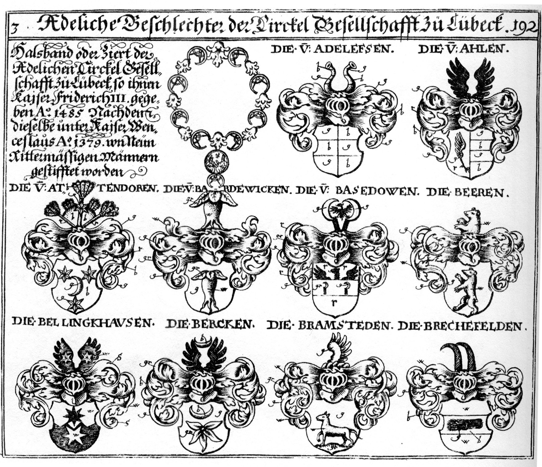 Coat of arms of families belonging to the noble Zirkelgesellschaft in Lübeck